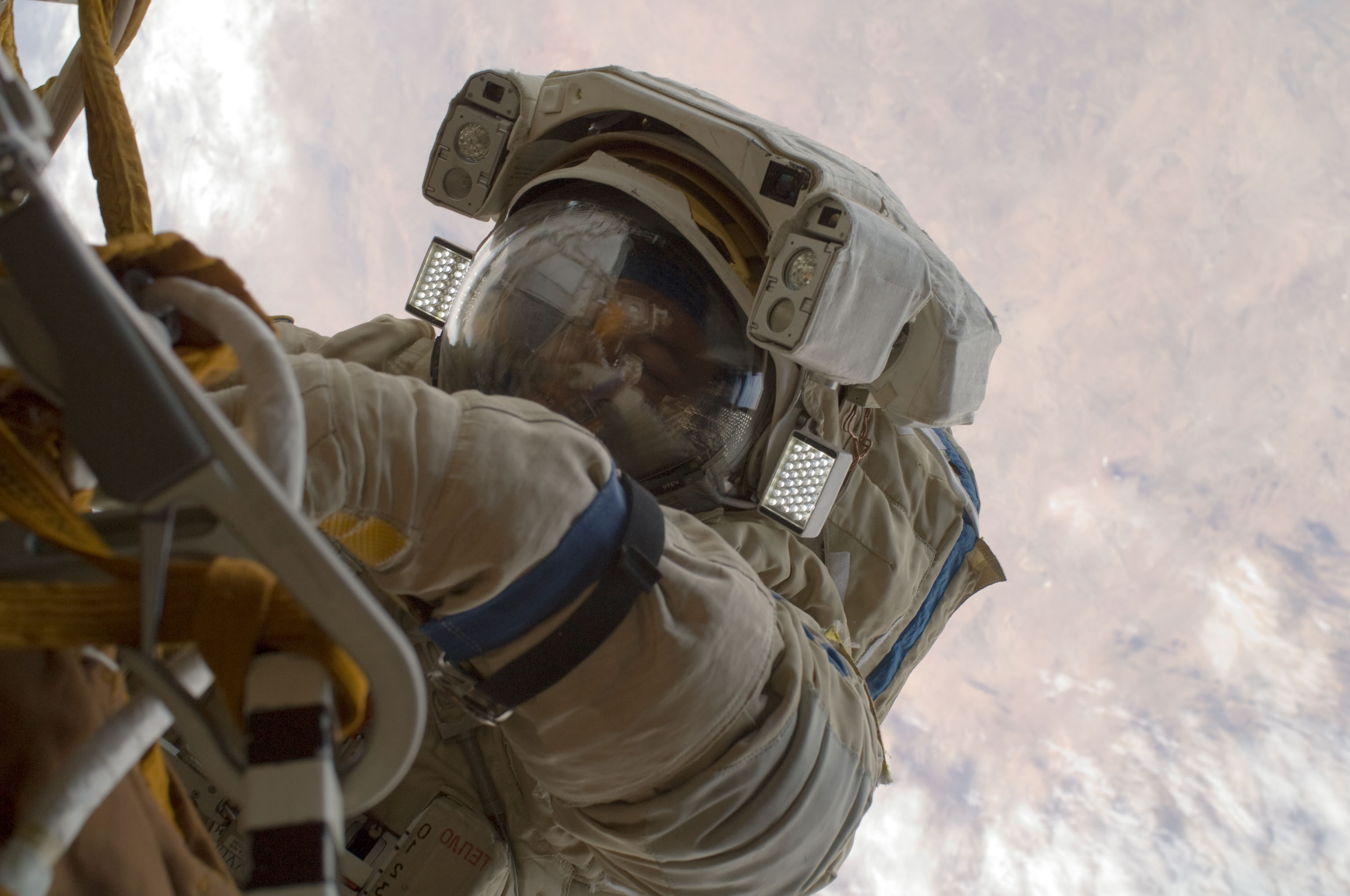 Cosmonaut Yury Lonchakov, Expedition 18 flight engineer, performs a task during the Dec. 23 spacewalk on the International Space Station.